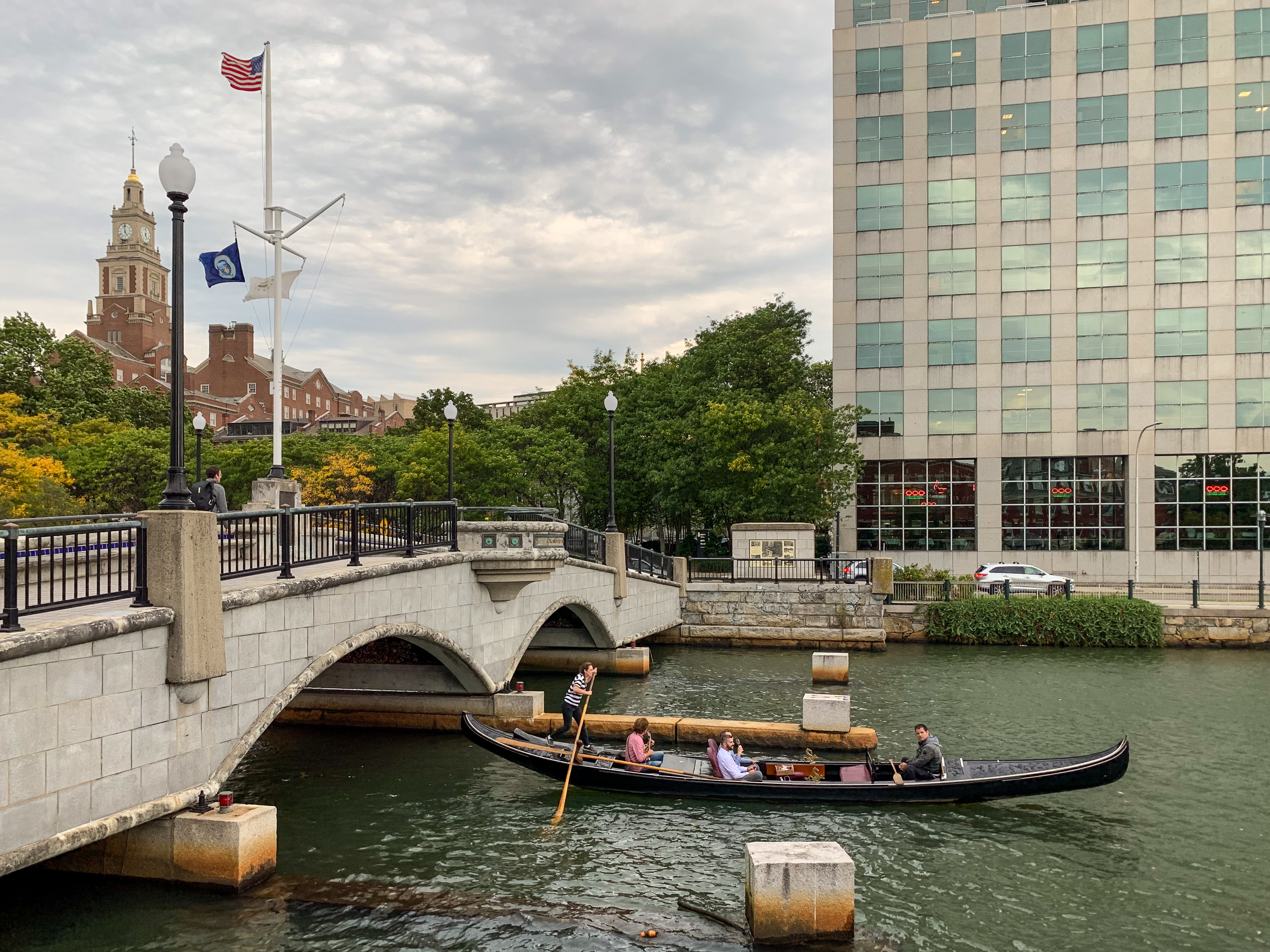 Gondola sails under the Crawford Street Bridge near 121 South Main street, on the Providence River in downtown Providence, Rhode Island